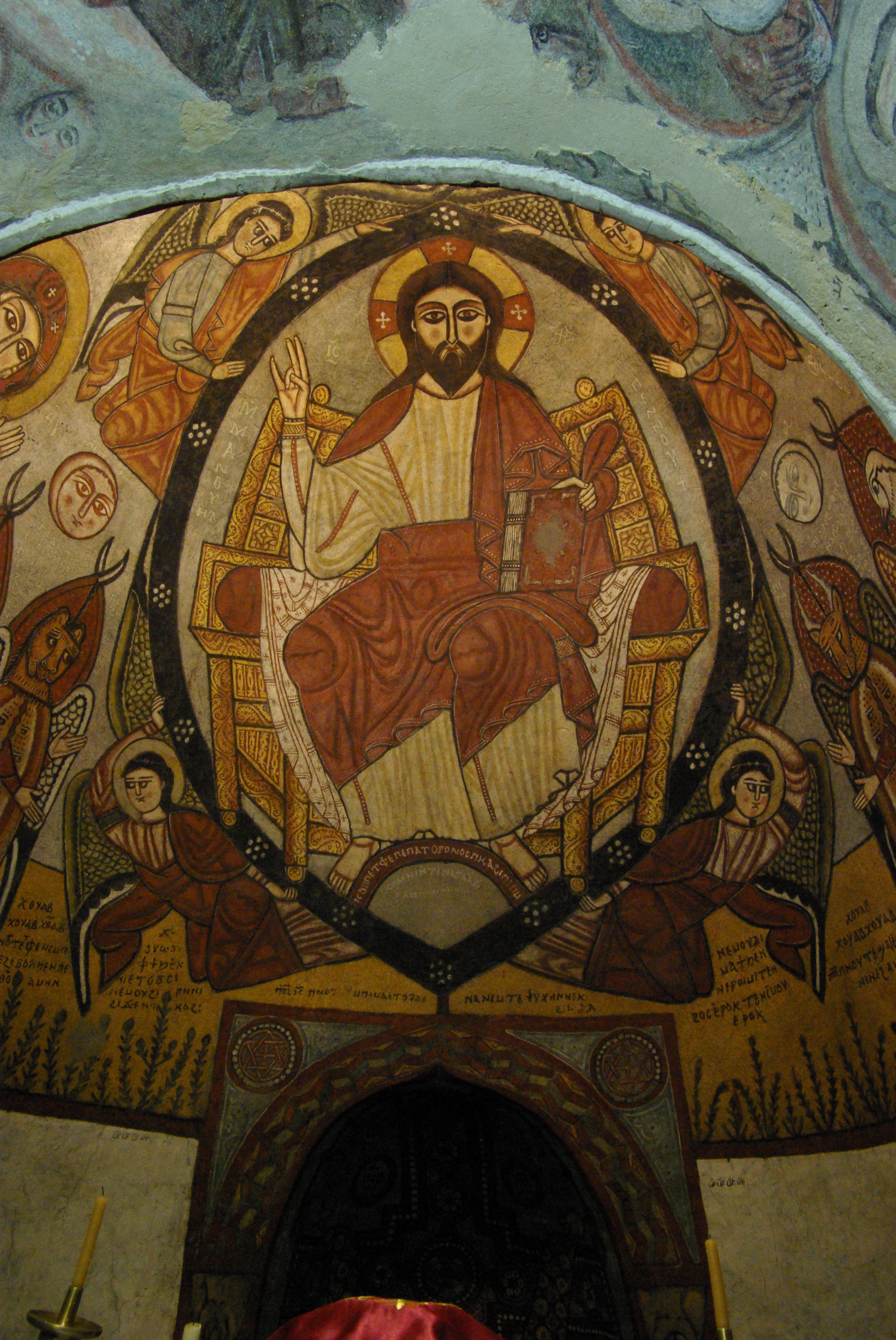 Monastery of Saint Anthony, Egypt